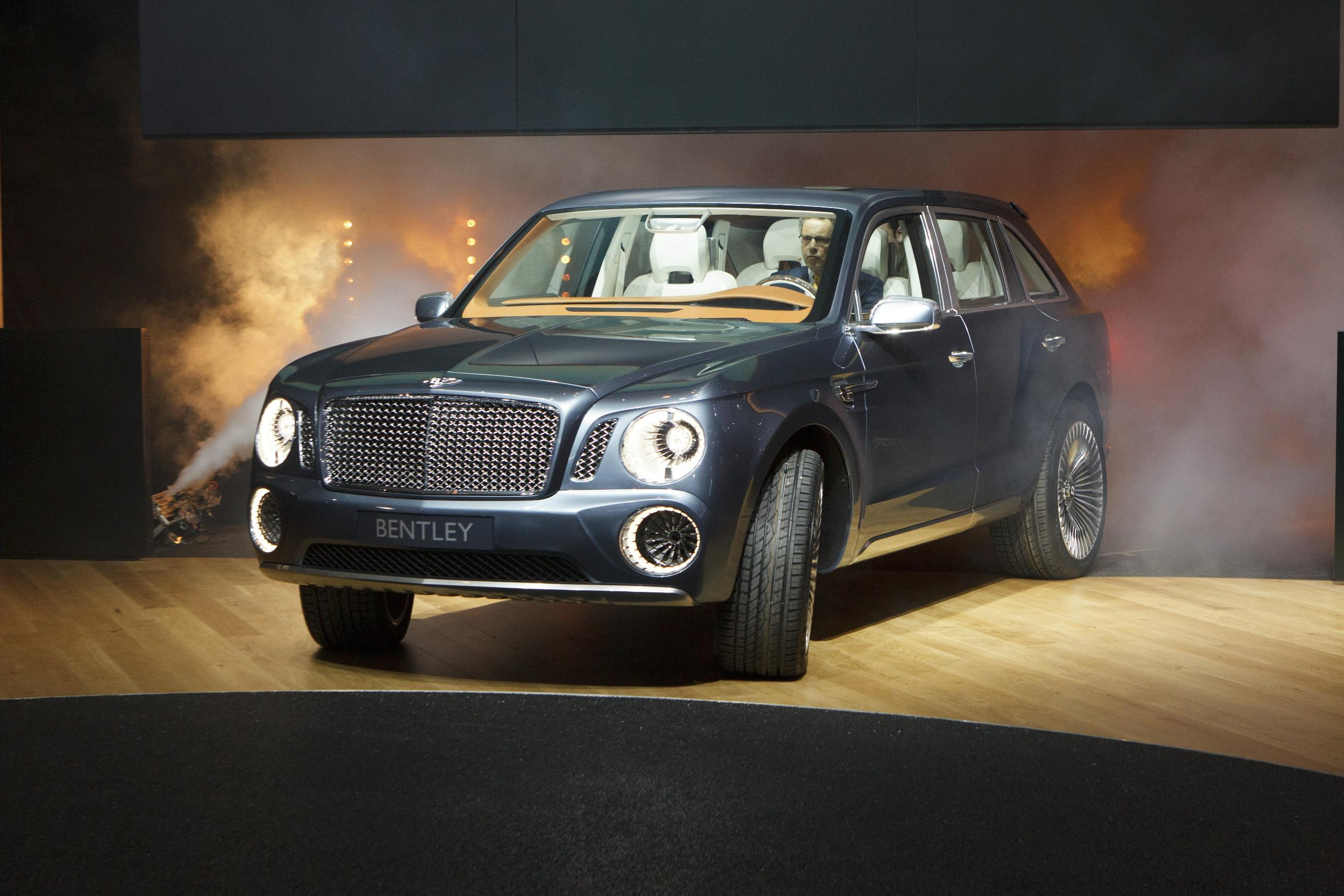 There was plenty of high-end metal being unveiled at the Geneva Motor Show, but the likes of the one-off Lamborghini Aventador J, the Ferrari F12 Berlinetta, and the Maserati GranTurismo Sport, and others weren’t the real show stoppers... there were plenty of the big-end players downsizing: Mercedes-Benz A-Class, Audi A3, Volvo V40, and much more. Here’s what flicked our switch. You can check out more on the 2012 Geneva Motor Show here at; as well as